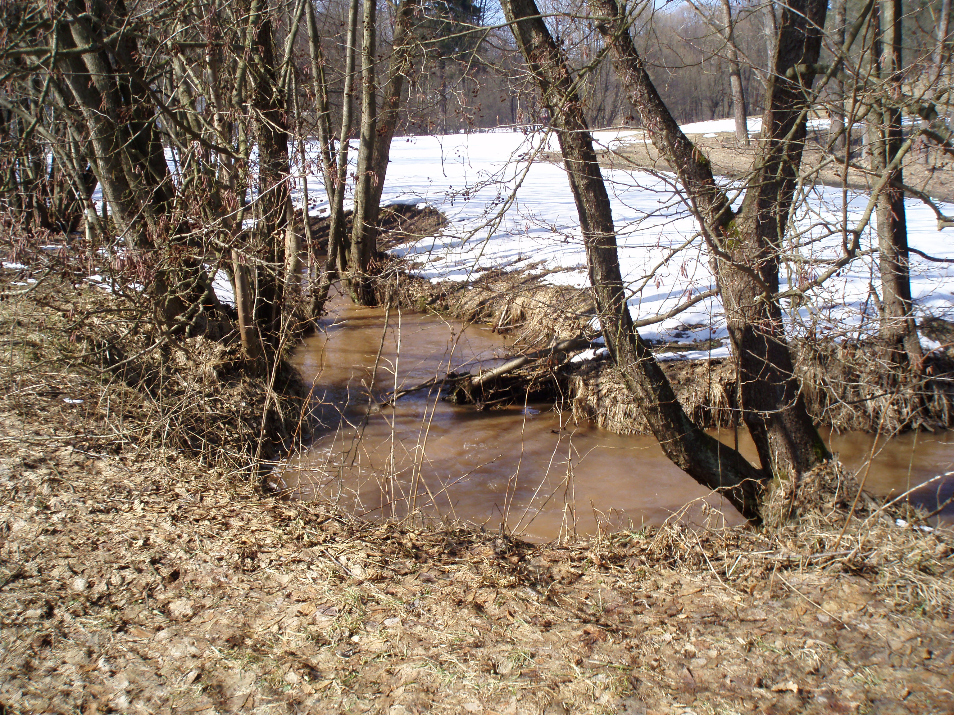 Maršovka Stream Valley in Libňatov (Czech Republic)